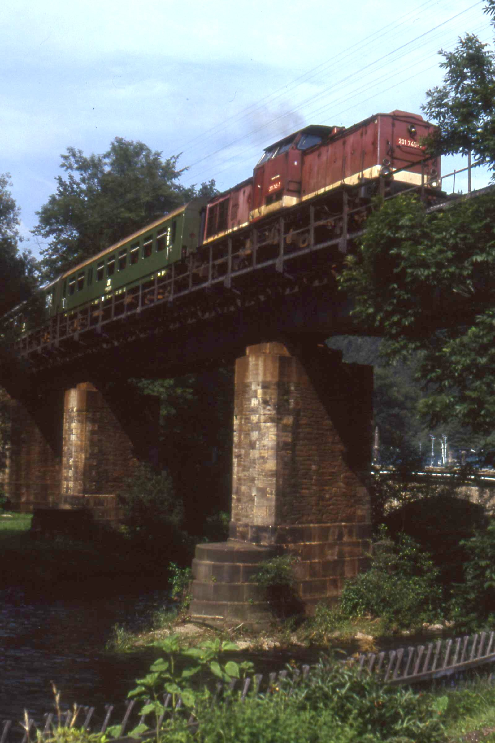 201 745-7, Baureihe 201 locomotive of DR crosses the Zschopau river in Scharfenstein, home of the very large refrigeration plant, DKK. The Zschopautalbahn. KBS 517, connects Flöha on the main Dresden-Chemnitz line with Cranzahl, Annaberg and today even Vejprty in the Czech Republic.